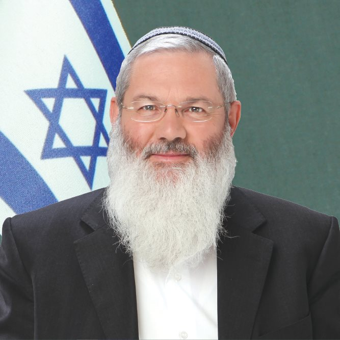 Rabbi Eli Ben Dahan, The Jewish Home party, Israel